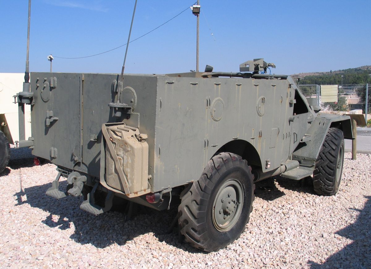 Description: Soviet BTR-40 APC in Yad la-Shiryon Museum, Israel. 2005. Source: Photo by me, User:Bukvoed.